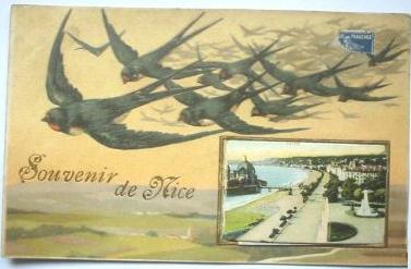 Postcard of France - Department of Alpes-Maritimes (06) - Souvenir of Nice, swallows